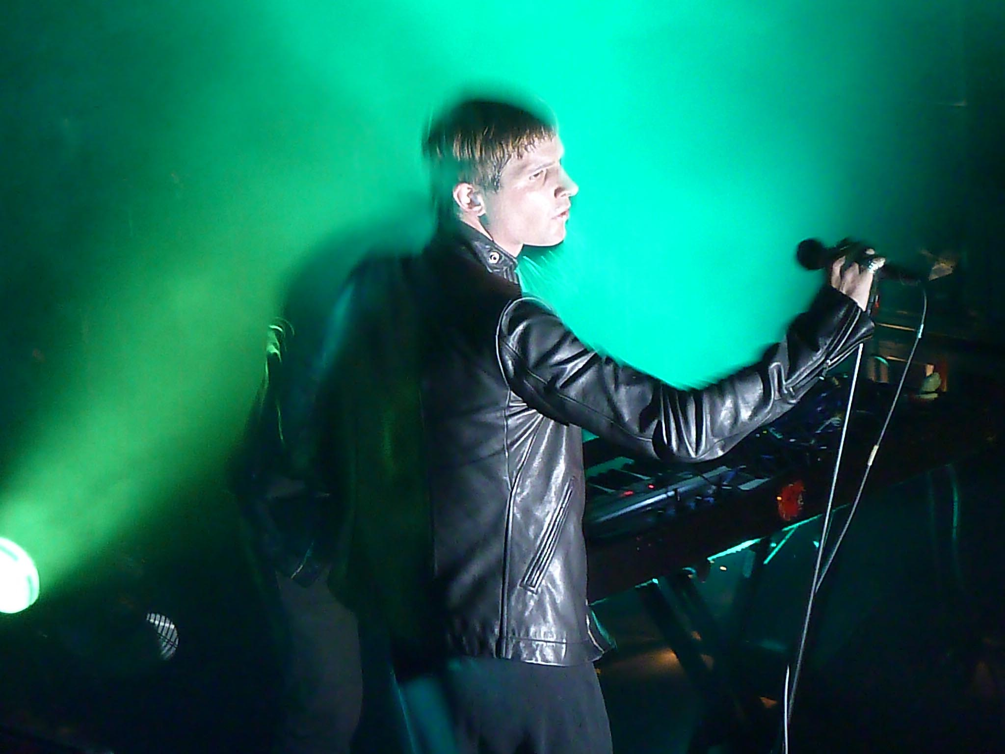 Wesley Eisold of the band Cold Cave.